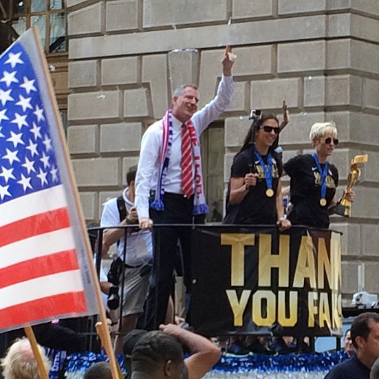 And there's the World Cup! Mayor DeBlasio with Carli and Rapinoe! Best 30 min work break ever #USWNT #USWNTparade #FIFAWWC